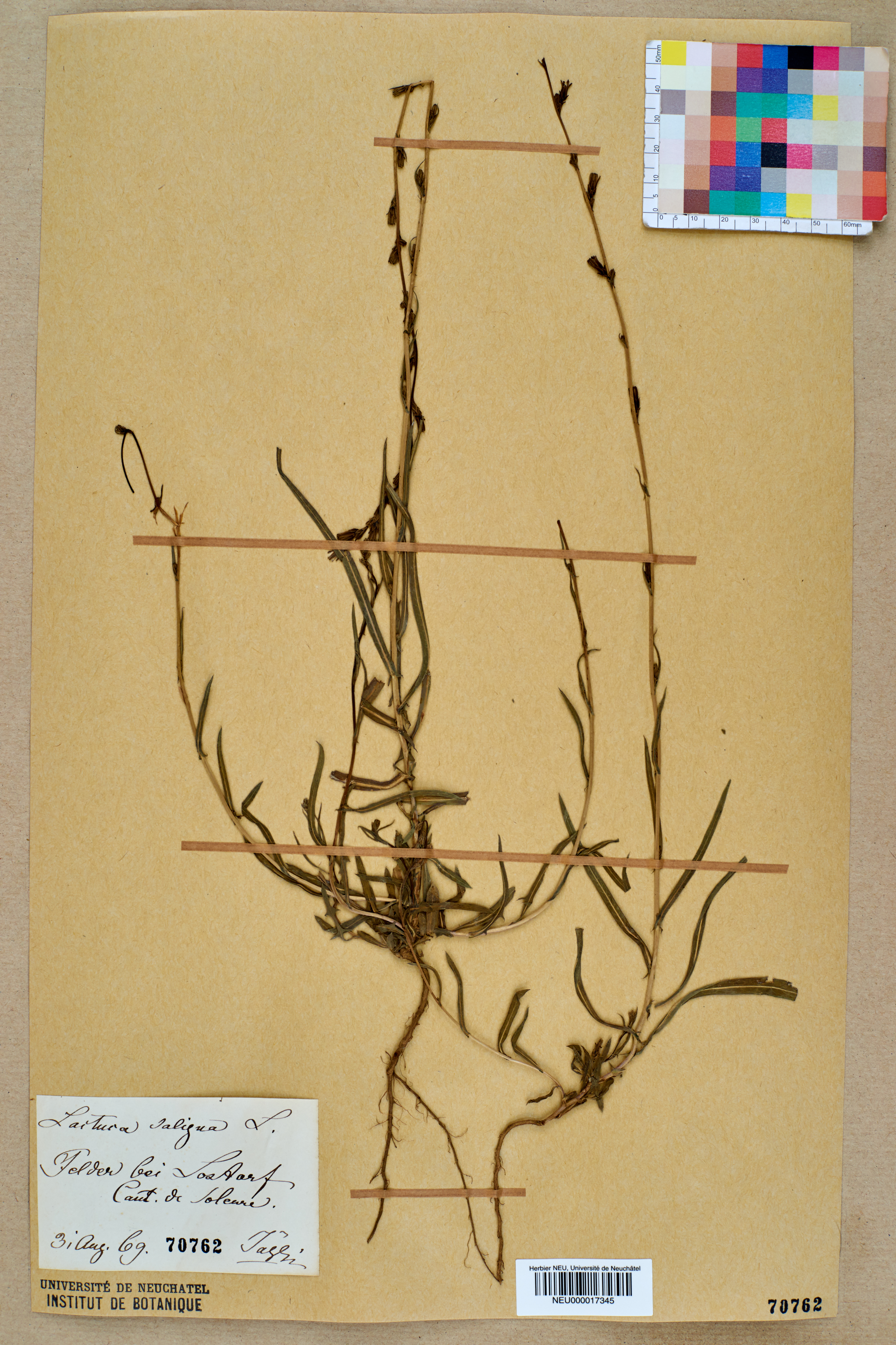 Dried pressed specimen of Lactuca saligna